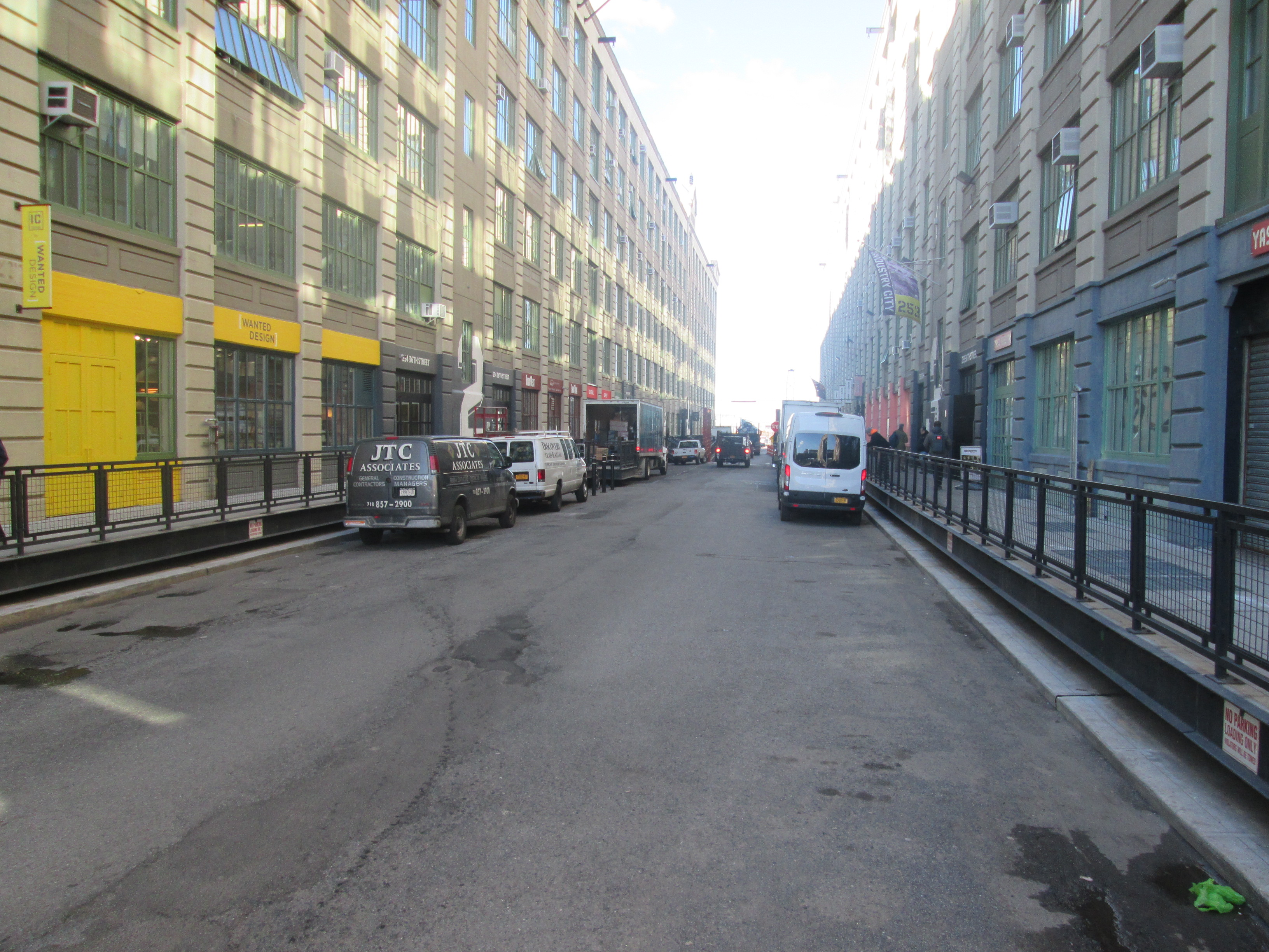 Industry City in Brooklyn, New York, seen on December 4, 2018